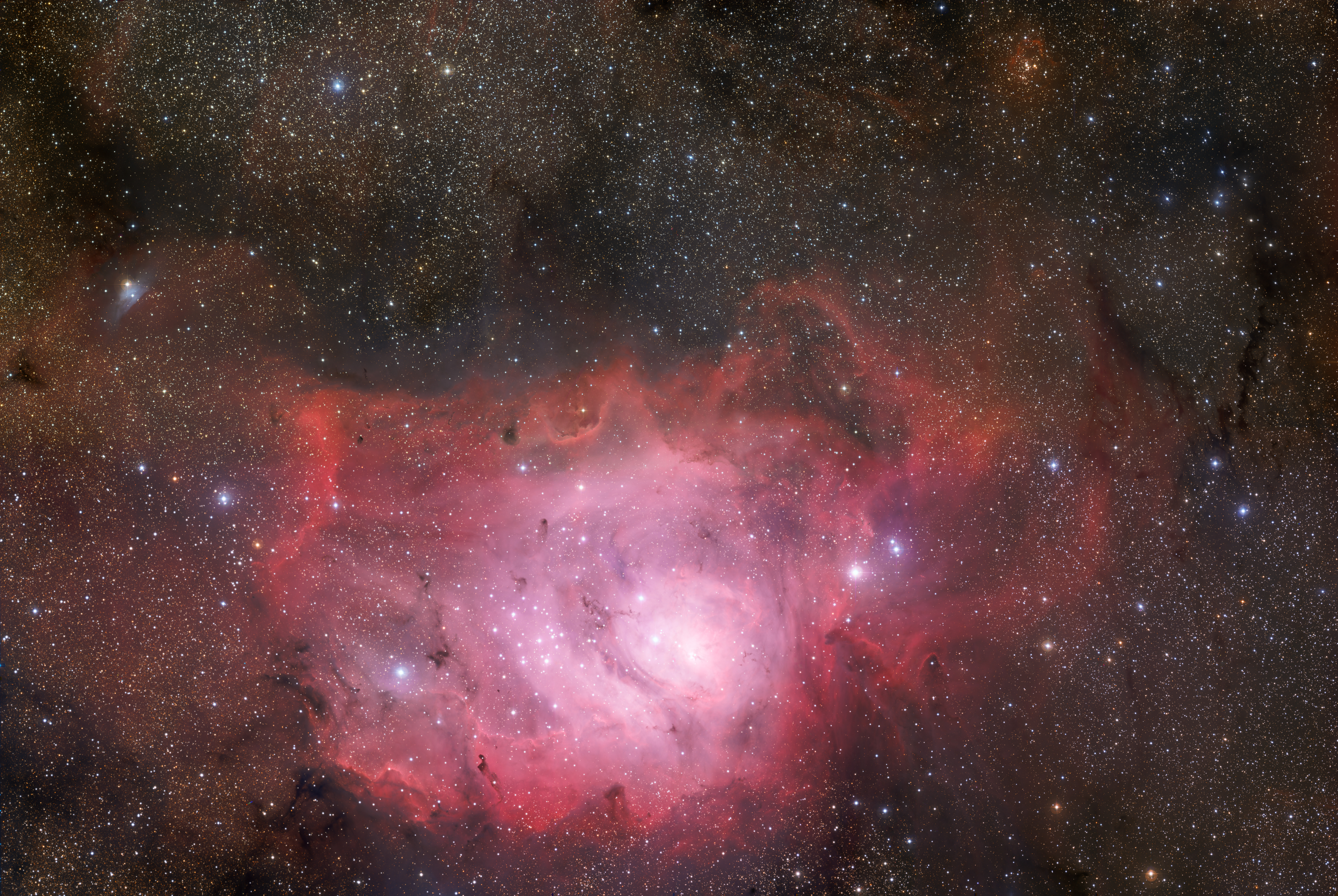 An amazing vista of the Lagoon Nebula taken with the 67-million-pixel Wide Field Imager attached to the MPG/ESO 2.2-metre telescope at the La Silla Observatory in Chile. The image covers more than one and a half square degree— an area eight times larger than that of the Full Moon — with a total of about 370 million pixels. It is based on images acquired using three different broadband filters (B, V, R) and one narrow-band filter (H-alpha).